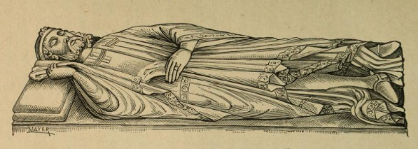 Image of the tomb of Afonso VIII. King of Galicia and Léon in the Royal Pantheon of Compostela Cathedral.